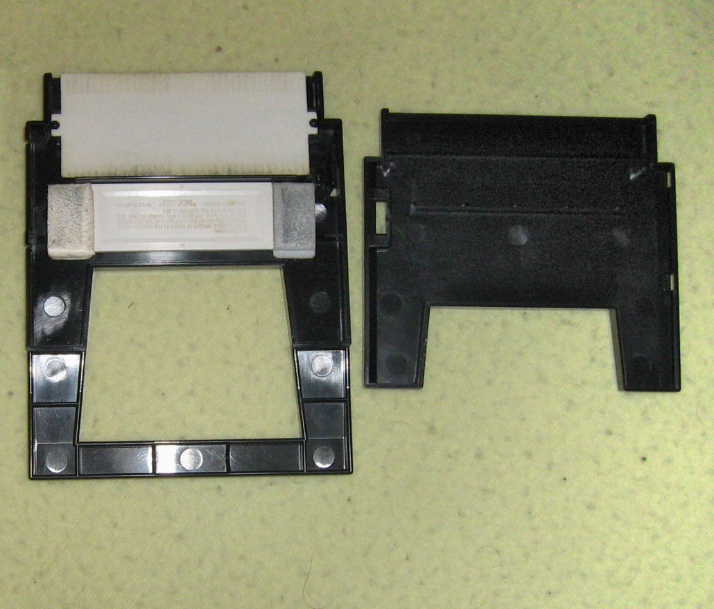 This is a photograph of the front of the packaging of the Nintendo Entertainment System Cleaning Kit, and the 'cartridge' itself. The cartridge here is opened to show the actual kit it contains. I took this photo myself, of the Cleaning Kit I own.